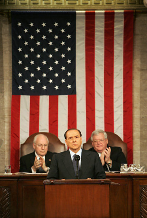 Vice President Dick Cheney and House Speaker J. Dennis Hastert applaud Italian Prime Minister Silvio Berlusconi during an address to a joint session of Congress, Wednesday, March 1, 2006. The Prime Minister's speech to the joint session was part of a three-day visit to Washington that included a visit to the White House, where he met with President George W. Bush and discussed Italy's continued allied relationship with the US in the global war on terror.